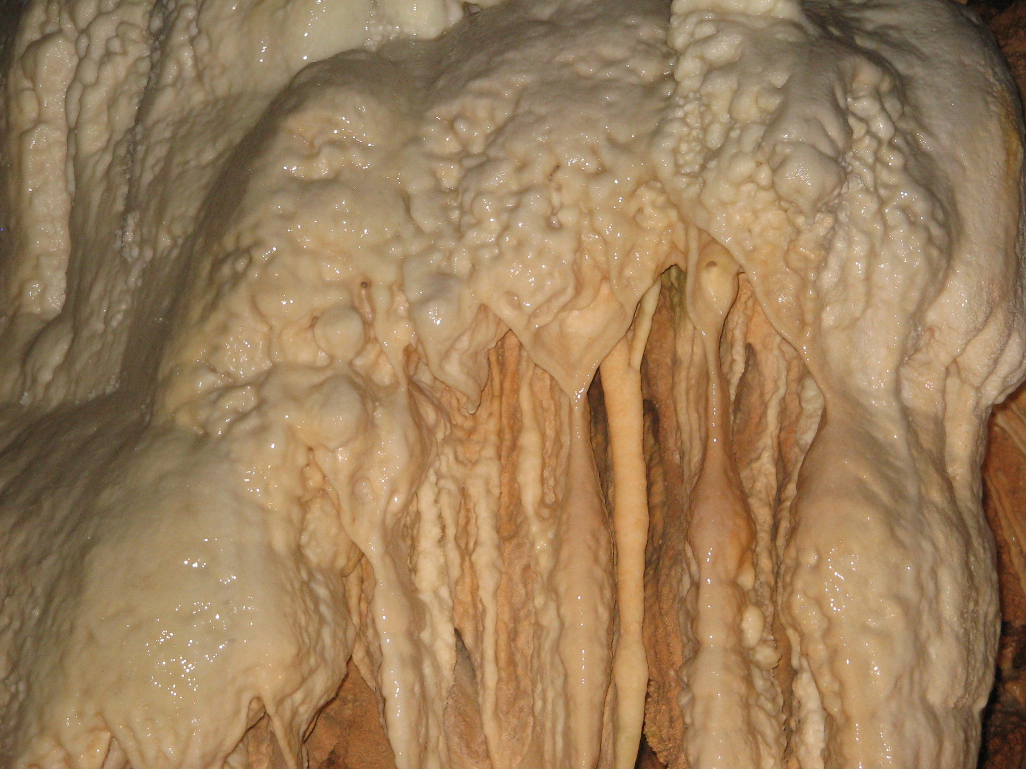 A part of the Aven d'Orgnac cave, village of Orgnac l'Aven, in Ardèche, France.